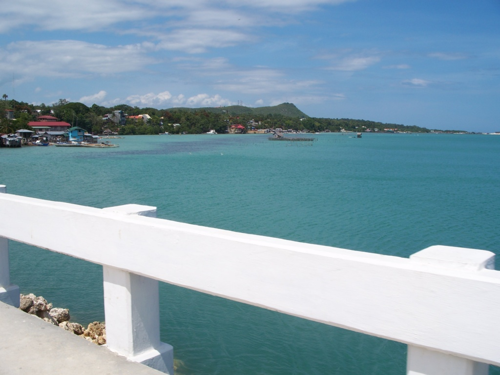 Bridge, connecting Panglao island with Bohol mainland